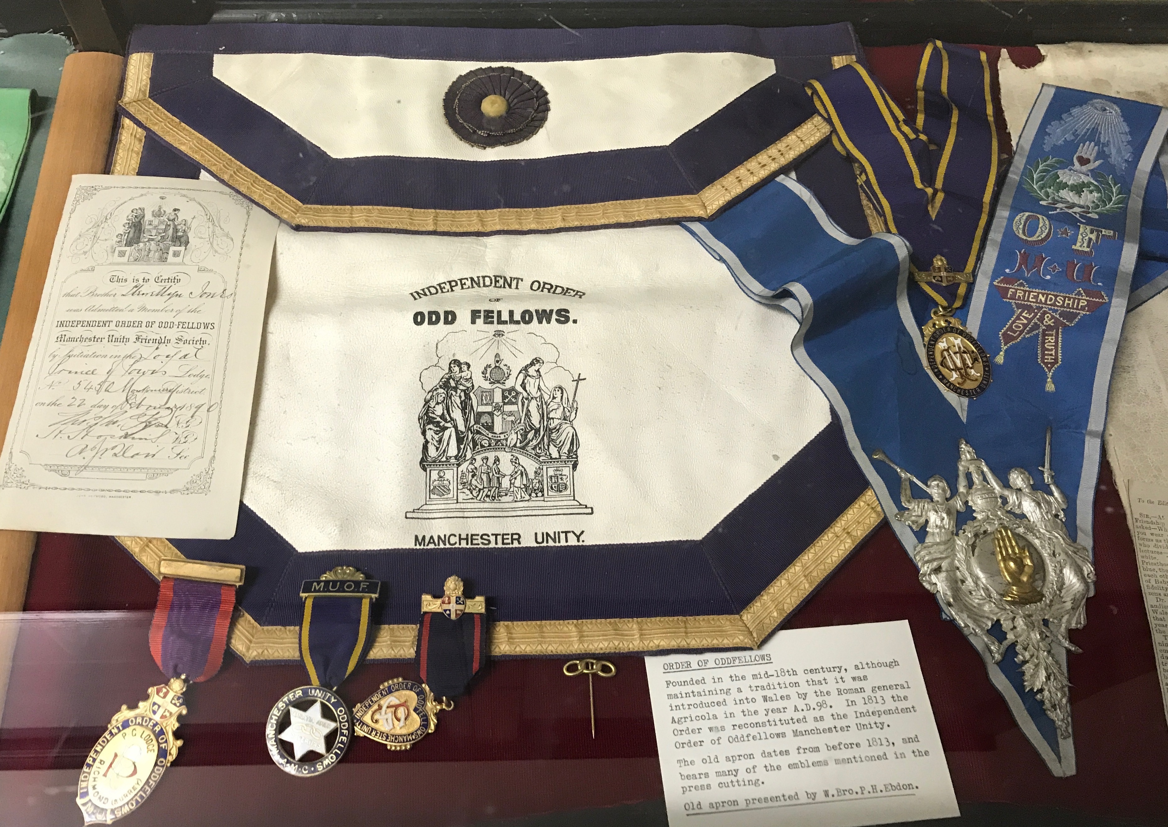 Items of regalia belonging to the Odd Fellows society, including an apron, a collar, and several breast jewels. These items are now museum exhibits.